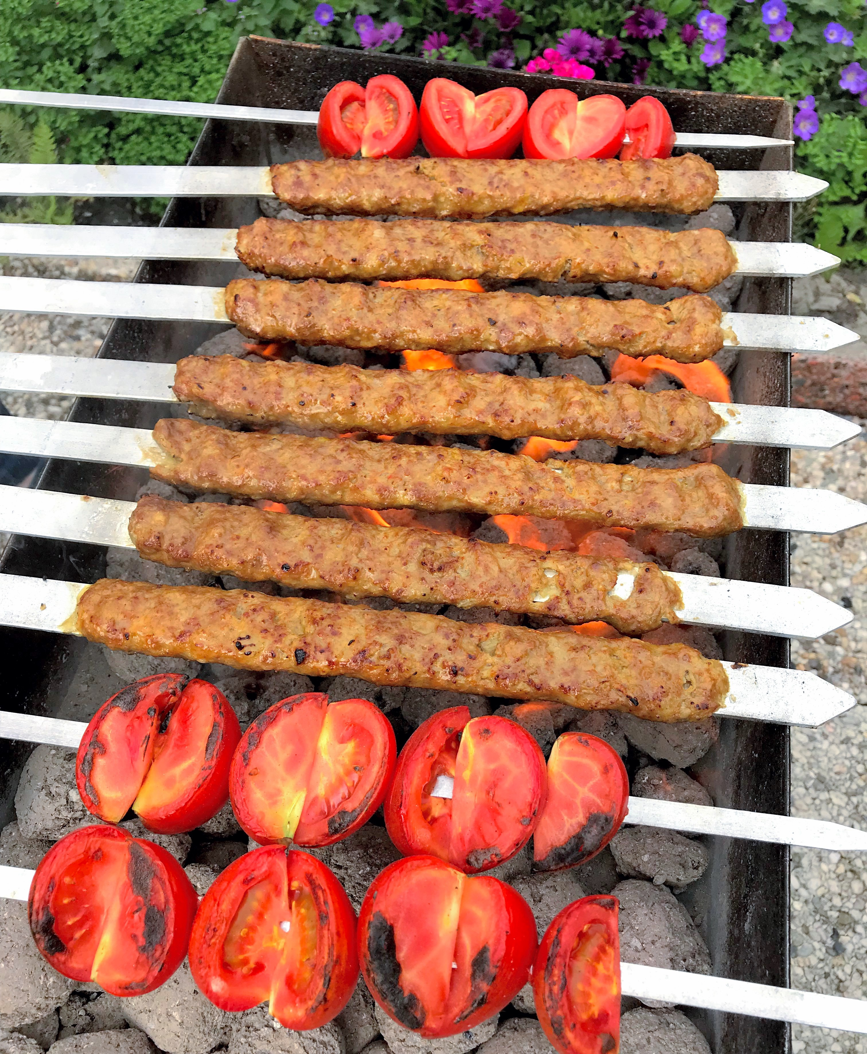 Kabab koobideh bbq persian food